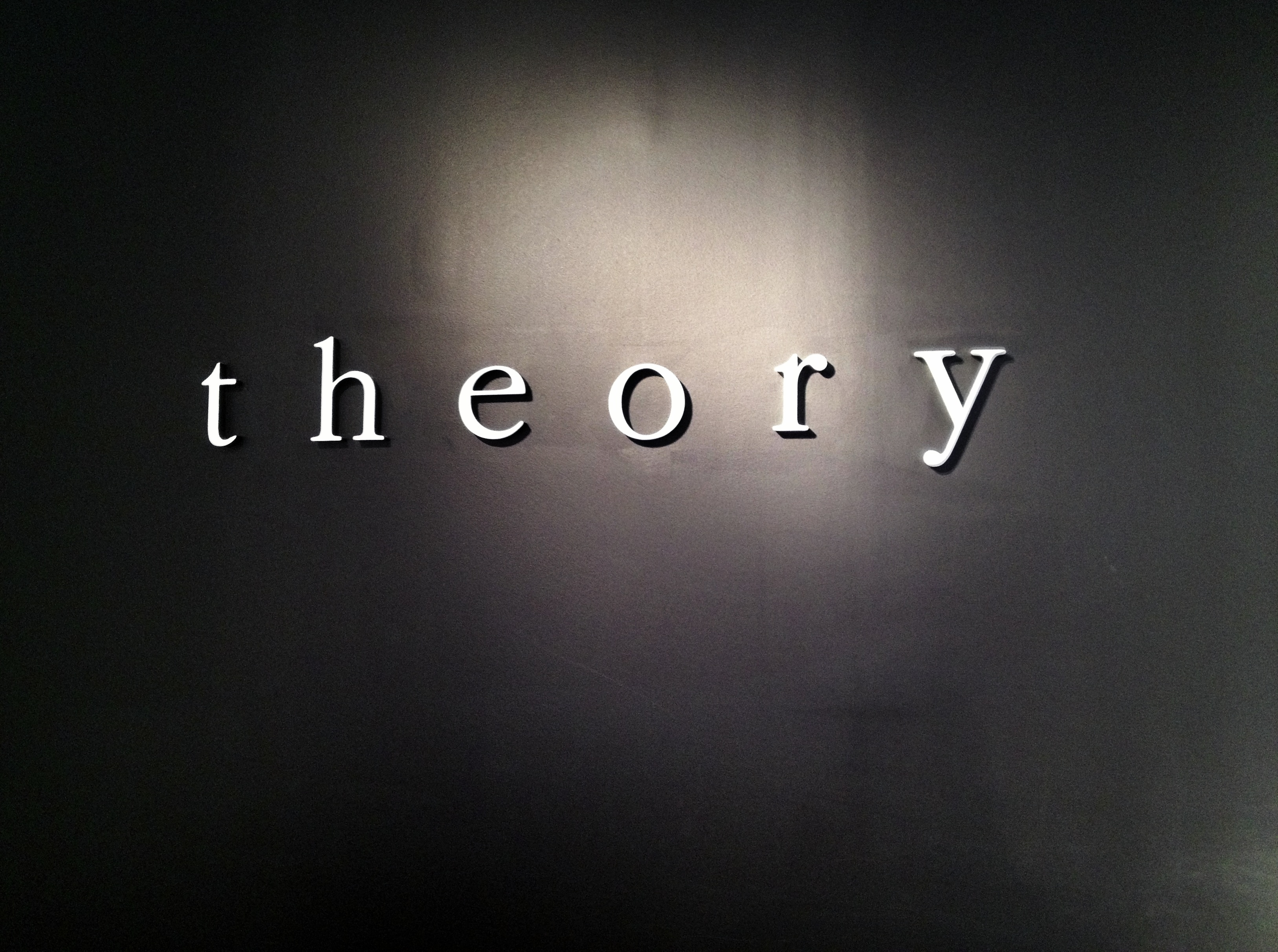 Photograph of the logo of Theory (the fashion label) on a wall